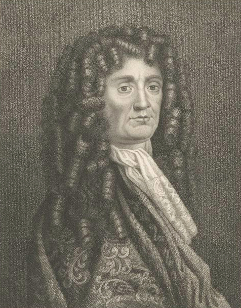 Italian composer Francesco Corbetta (1610-1681) by Ignatius Joseph van den Berghe (1752-1824) after Sylvester Harding (1745-1809).